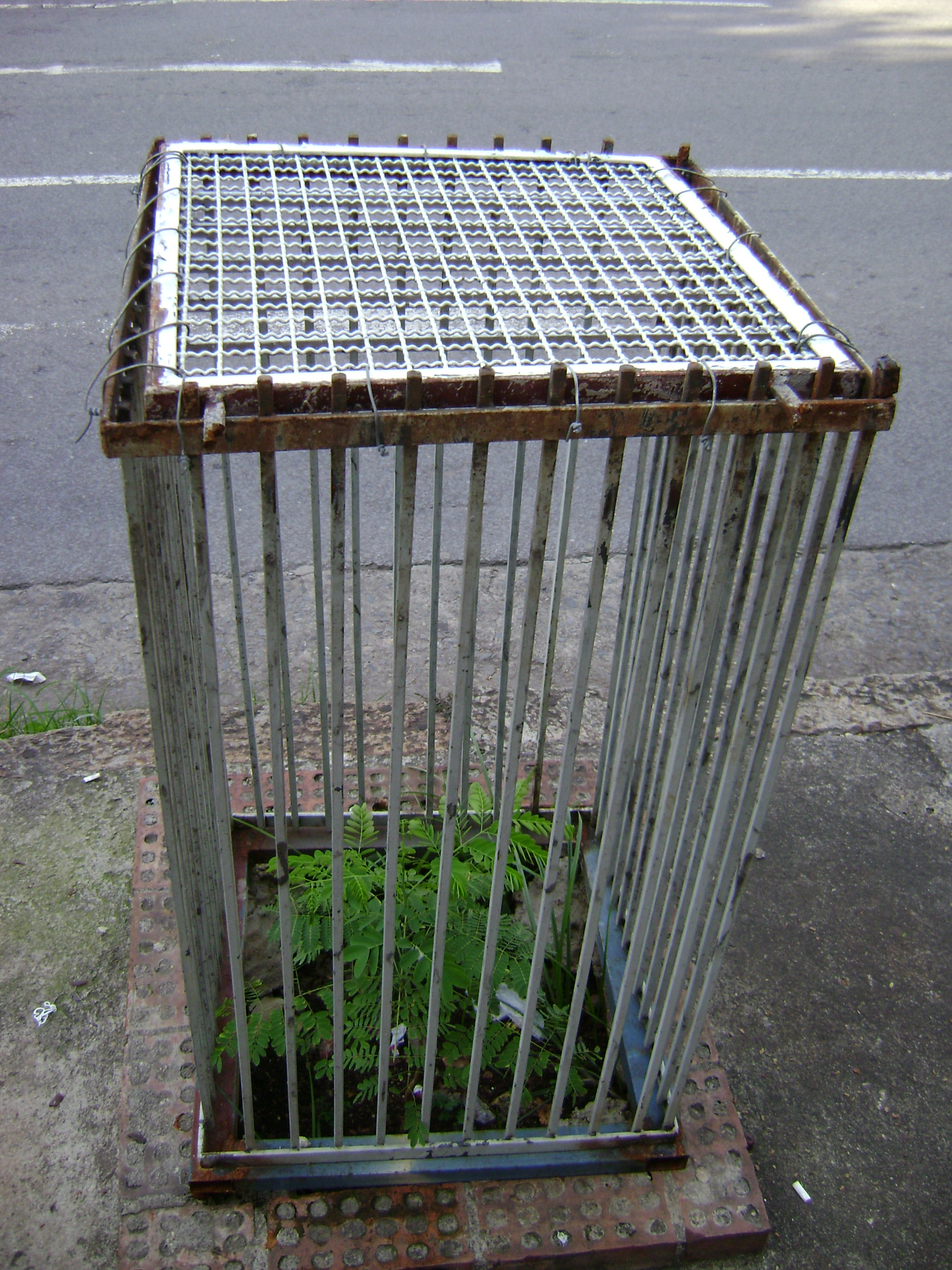 Grade para proteção de planta a crescer em passeio, em Belo Horizonte.